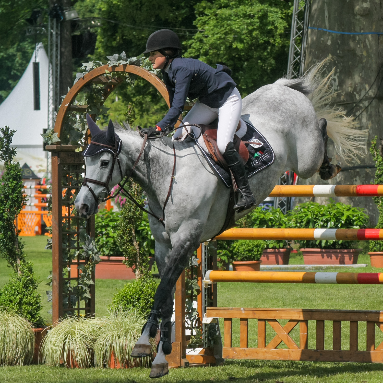 Jessica Springsteen and Zero at the Pfingstturnier Wiesbaden in 2013